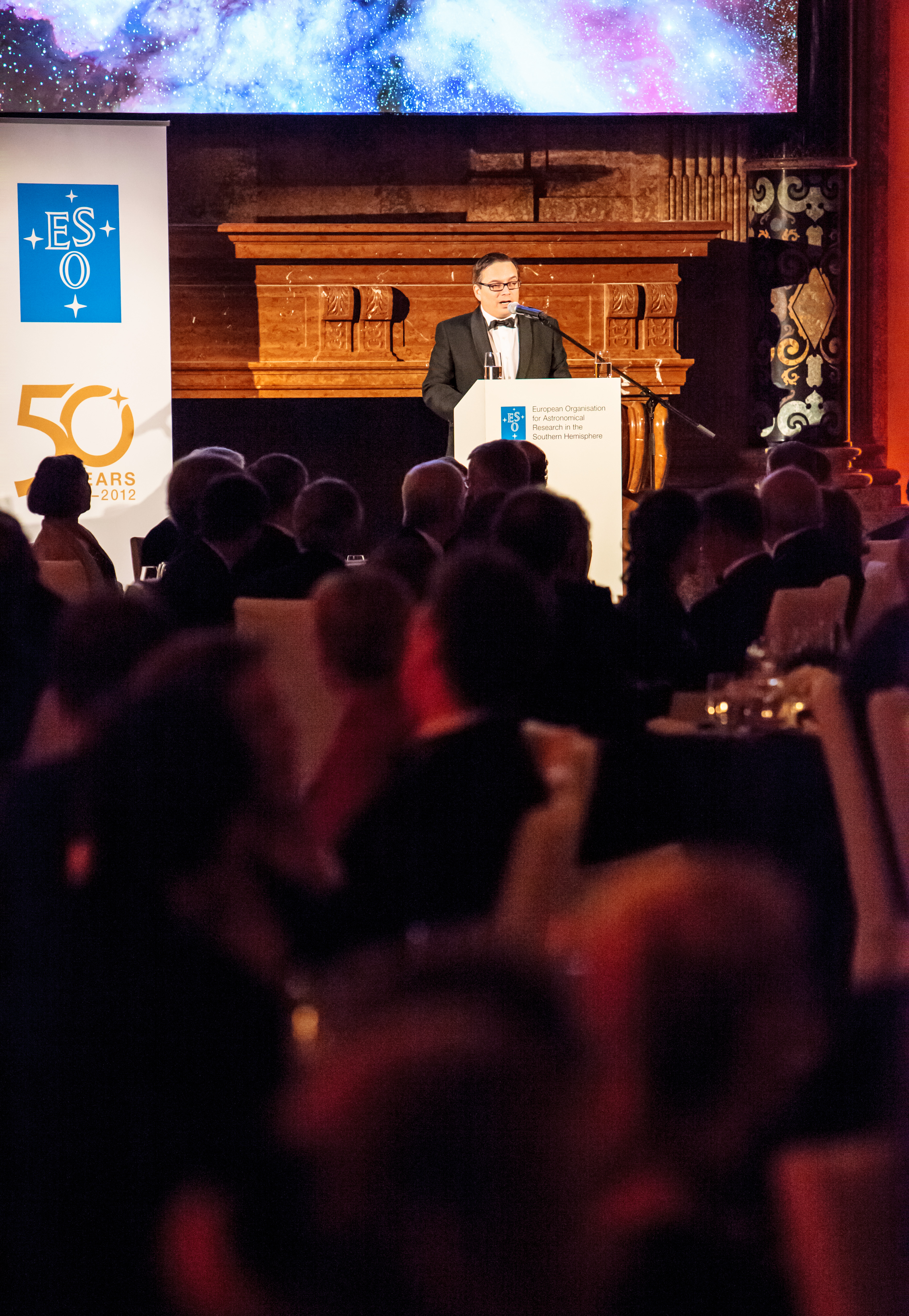 Prof Xavier Barcons, President of the ESO Council. Taken during the European Southern Observatory 50th anniversary gala, held in the Residenz, Munich, on October 11, 2012